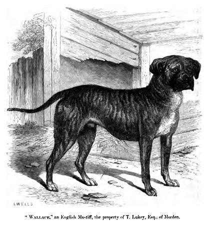 “Wallace” an English Mastiff, the property of T. Lukey, Esq. of Morden. 19th century.